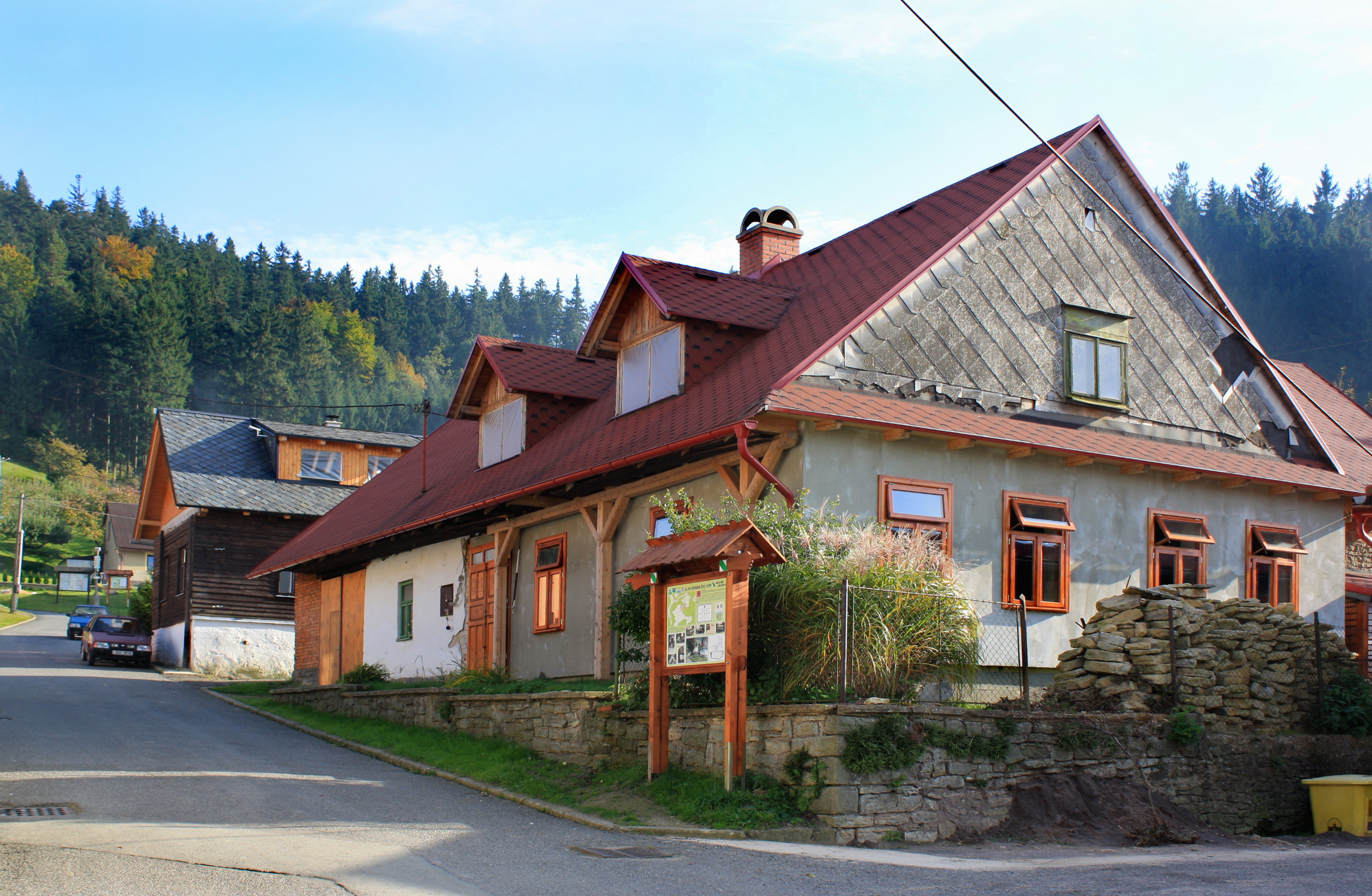 Old house in Říčky, part of Orlické Podhůří, Czech Republic